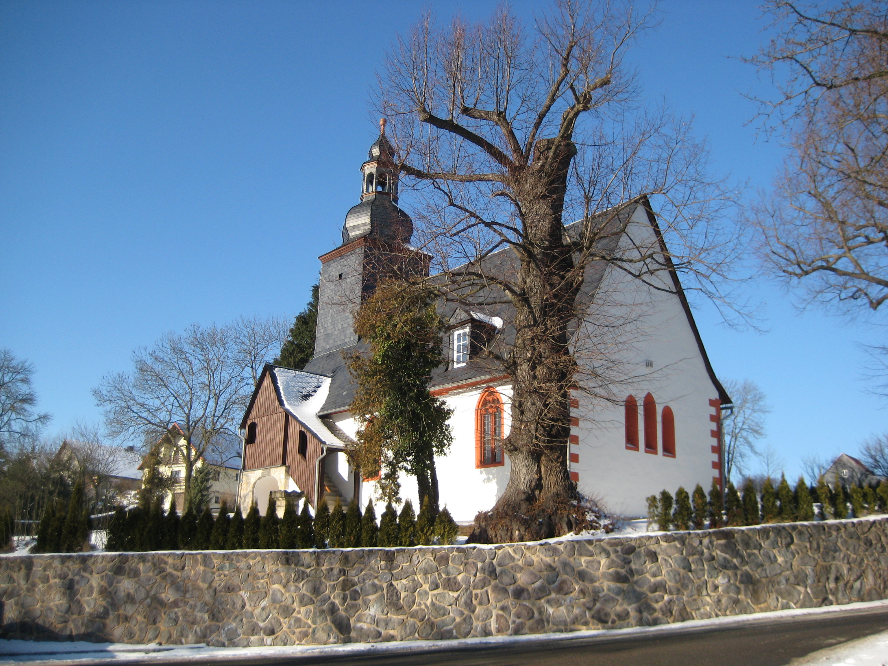 Church of Unterschoebling also called "Andreas-Kirche".